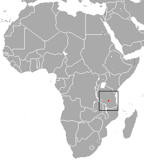 Kihaule's Mouse Shrew (Myosorex kihaulei) range